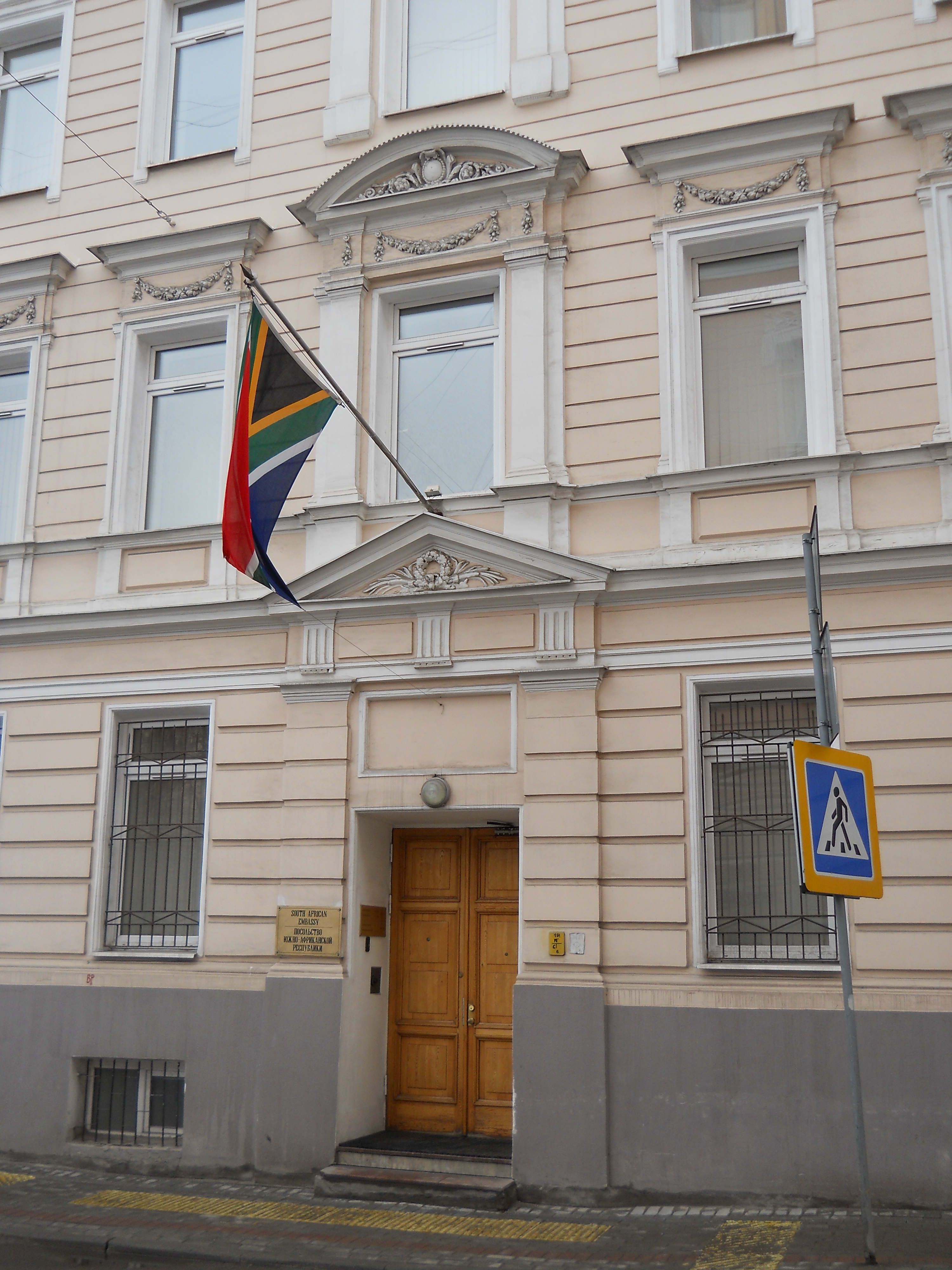 Embassy of South Africa in Moscow (Granatny Lane / Spiridonovka Street).